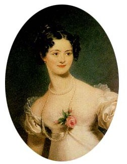 Princess Henrietta of Nassau-Weilburg (1797-1829), wife of FM Archduke Charles, victor of the Battle of Aspern-Essling